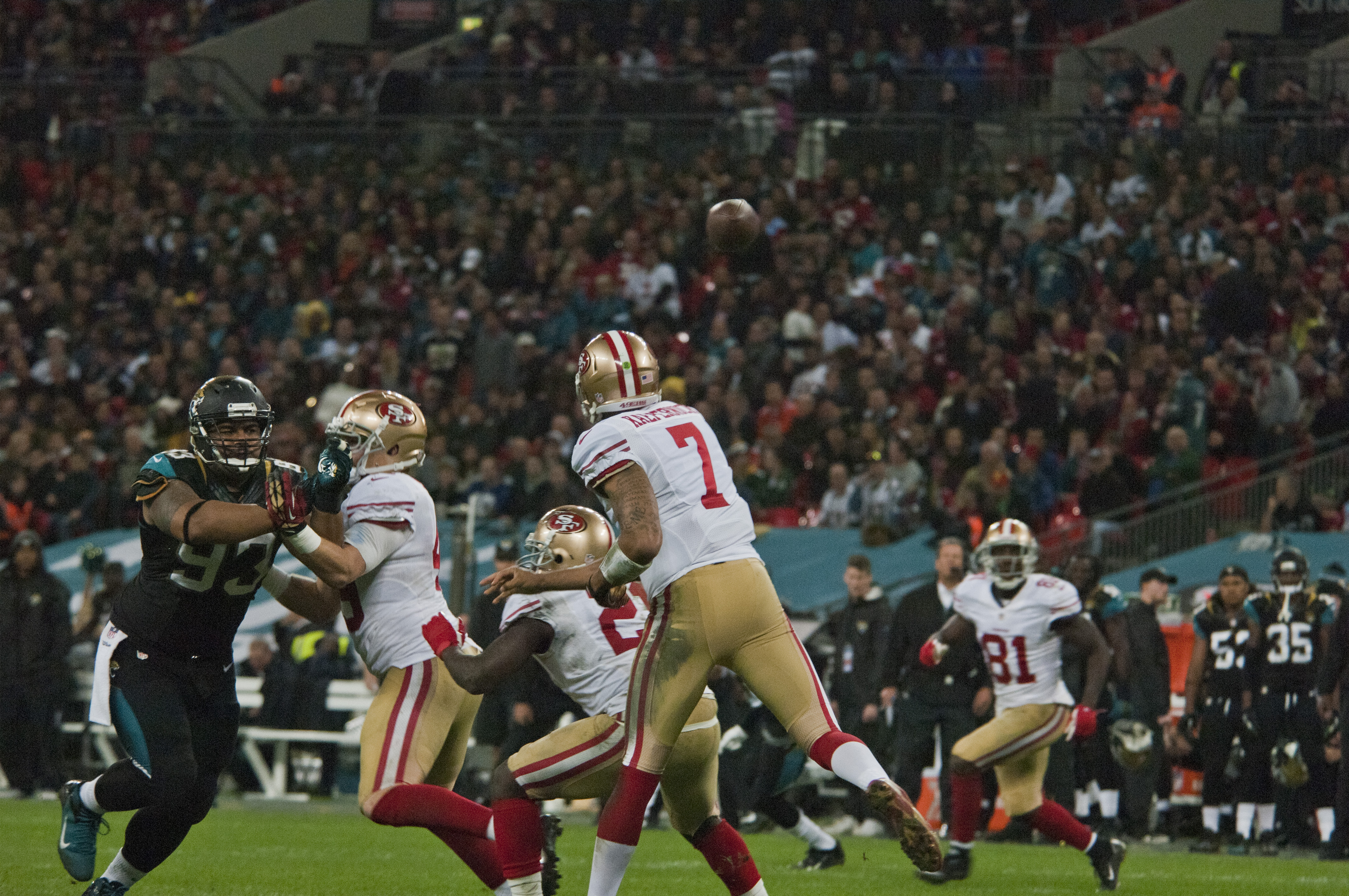 Colin Kaepernick, San Francisco 49ers quarterback, rockets a pass to wide receiver Anquan Boldin during the Oct. 27, 2013, NFL International Series game at Wembley Stadium, London. The 49ers played the Jacksonville Jaguars, routing them 42-10. Royal Air Force Lakenheath Airmen took part in the pregame ceremony, displaying large U.S. and U.K flags.